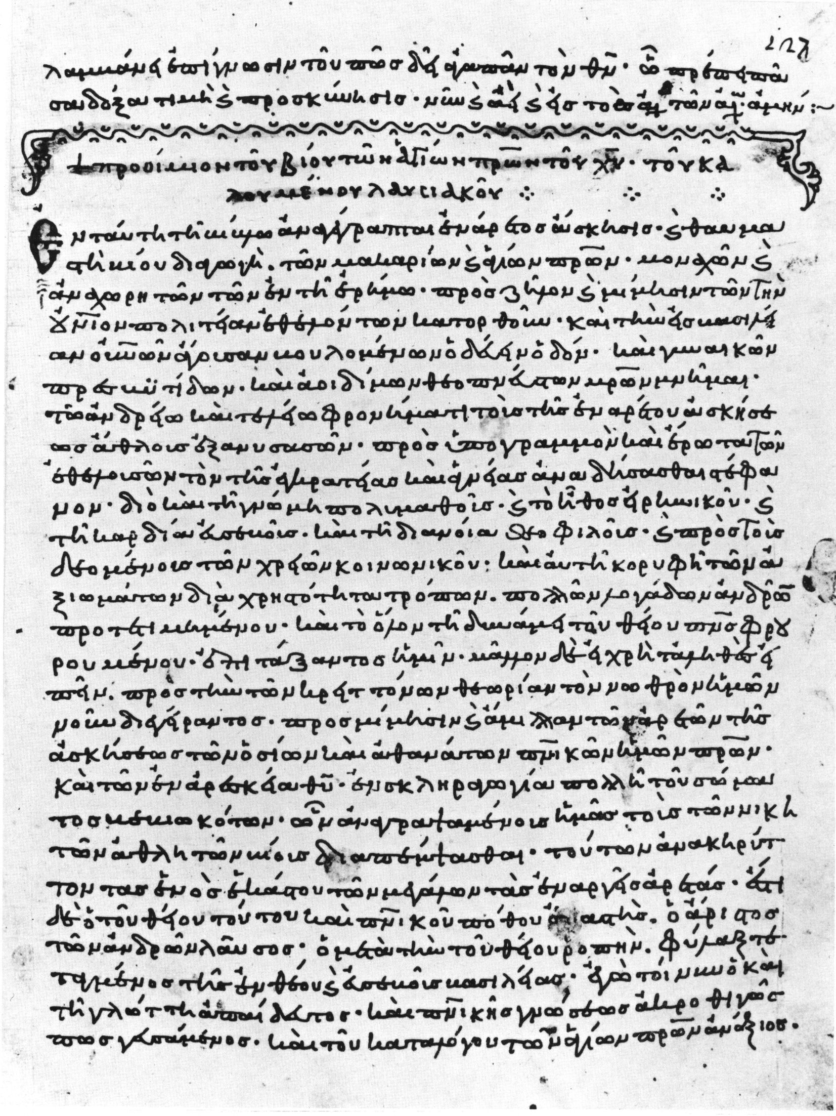 Palladius of Galatia, Lausiac History, Preface, in ms. Venice, Biblioteca Marciana, Gr. 346, fol. 127.